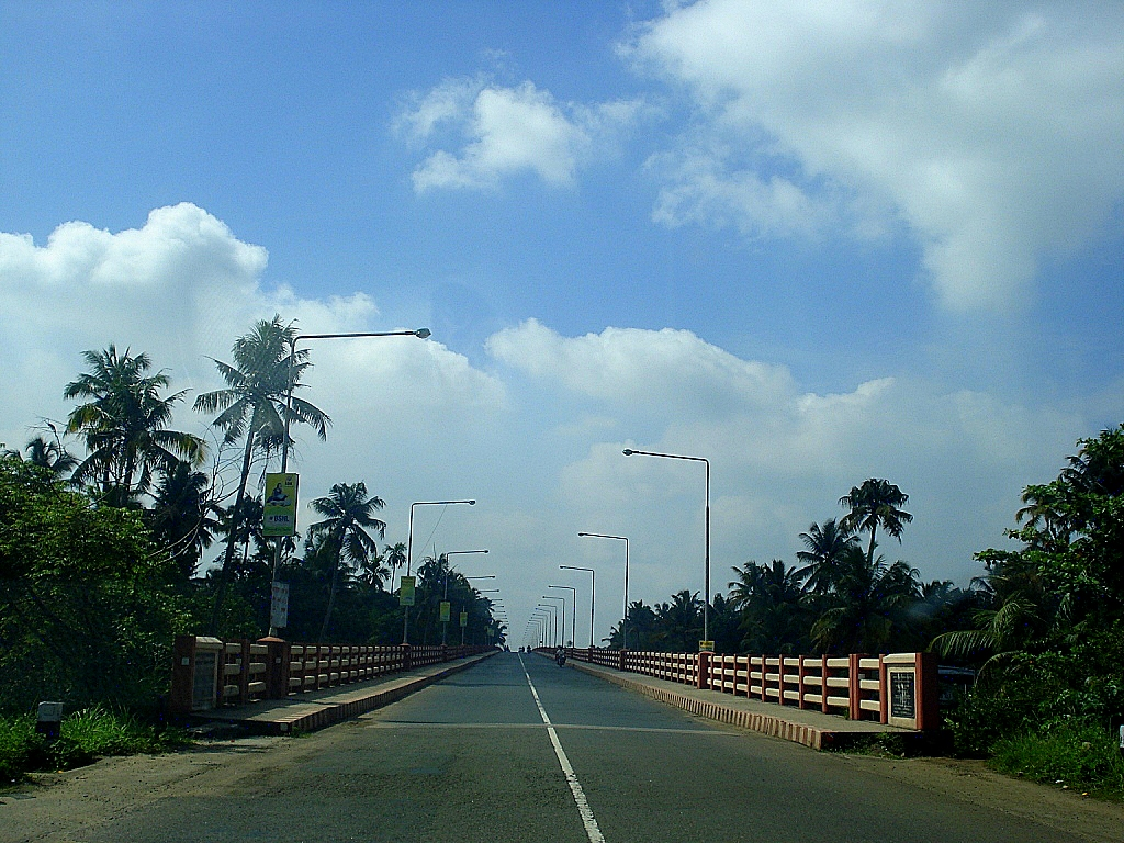 Varaphuzha Bridge